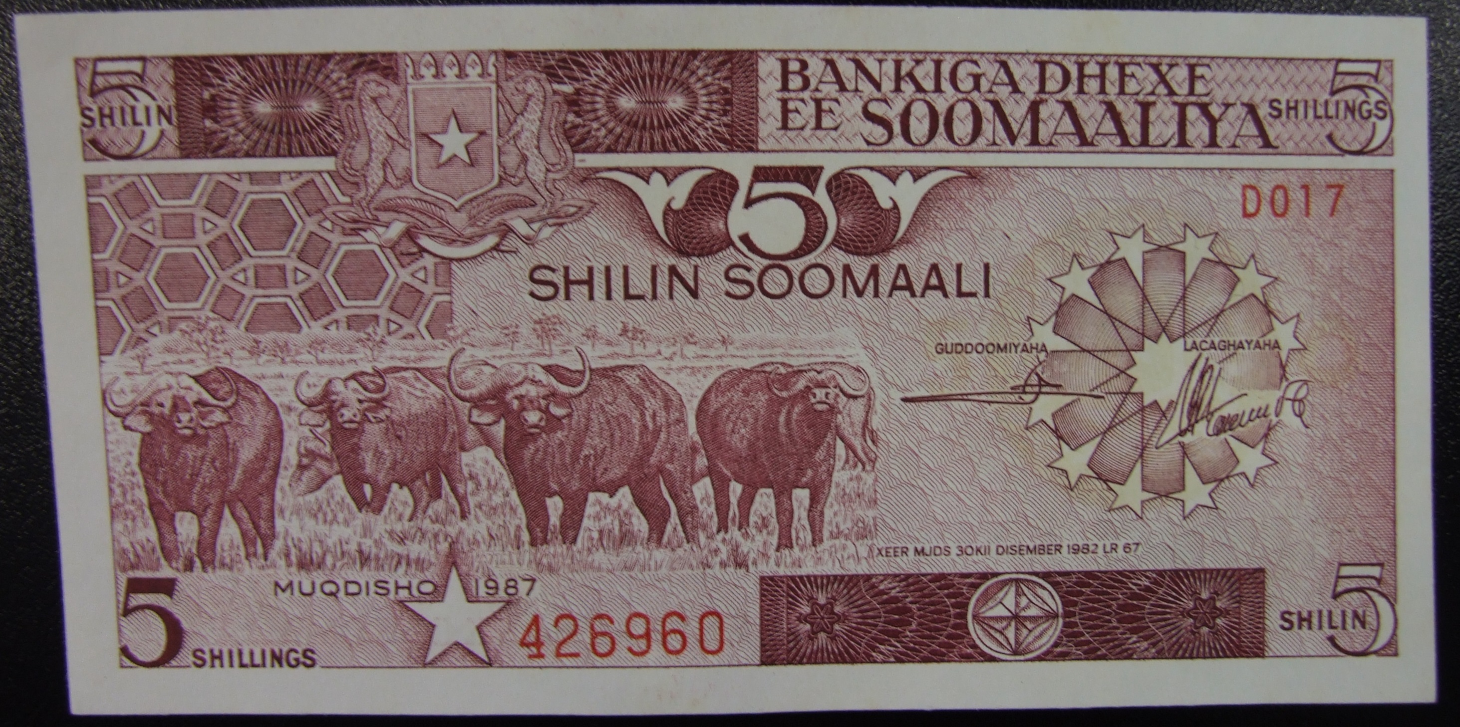 Somalia 5 shillings